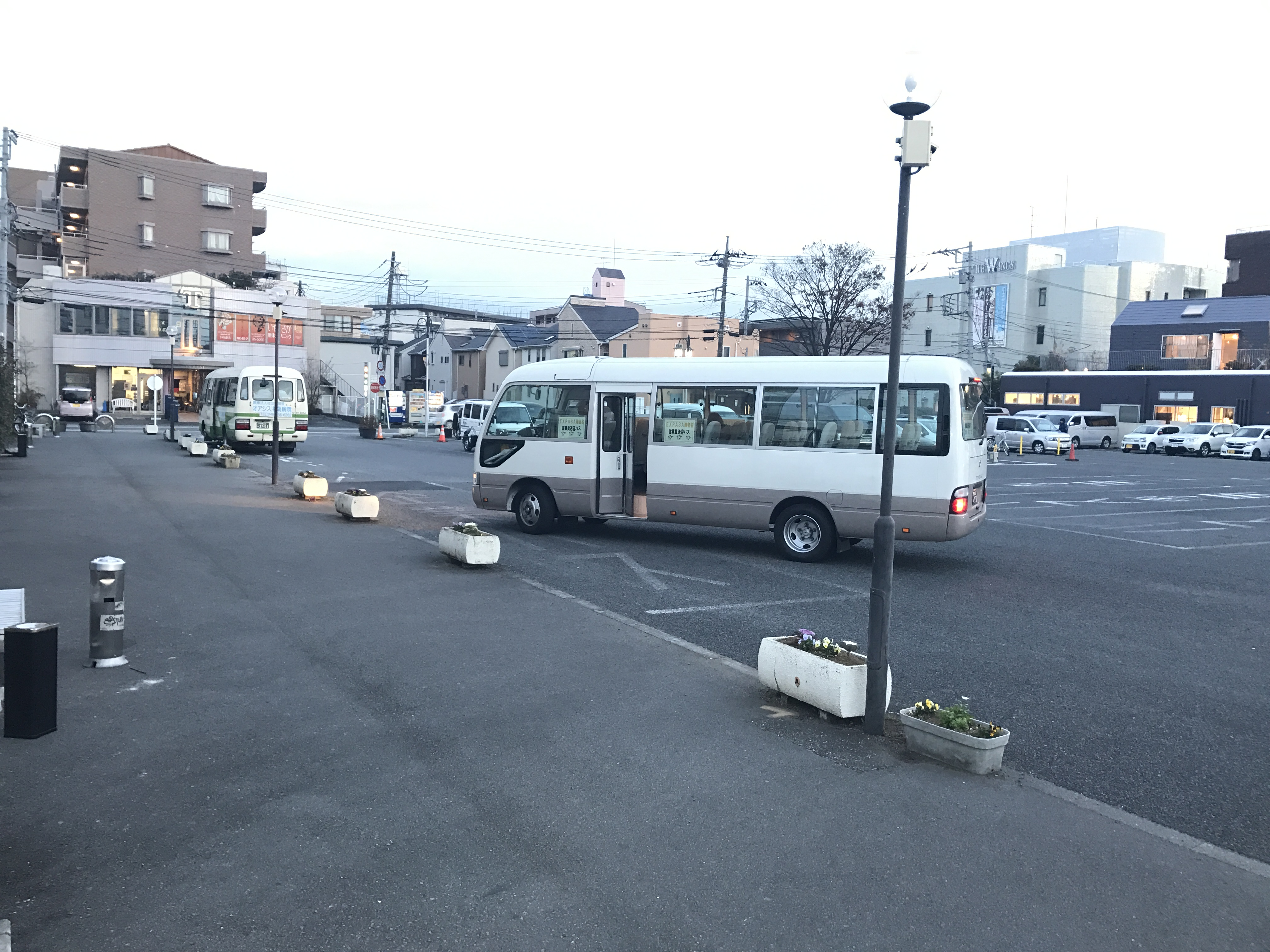 e-cat, Company transfer terminal at East entrance of Ebina station in Japan.